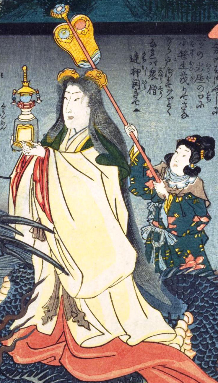 This is an Ukiyo-e during the time of Empress Genshō. Tatsumi, Tozumimeyama Chosen-in at the 29th pass. Kunisada, Hiroshige "Kannon Reikenki" Chichibu Pilgrimage. Note: this is not Empress Genshō in the portrait. Please read the Japanese handwritten description on the right side of the artwork. "The time of Emperor Genshō "means "when Emperor Genshō reigned." In other words, it means, for example, "1800" in the sense that there was a dragon woman when Emperor Genshō reigned, the dragon woman is shown in this artwork.